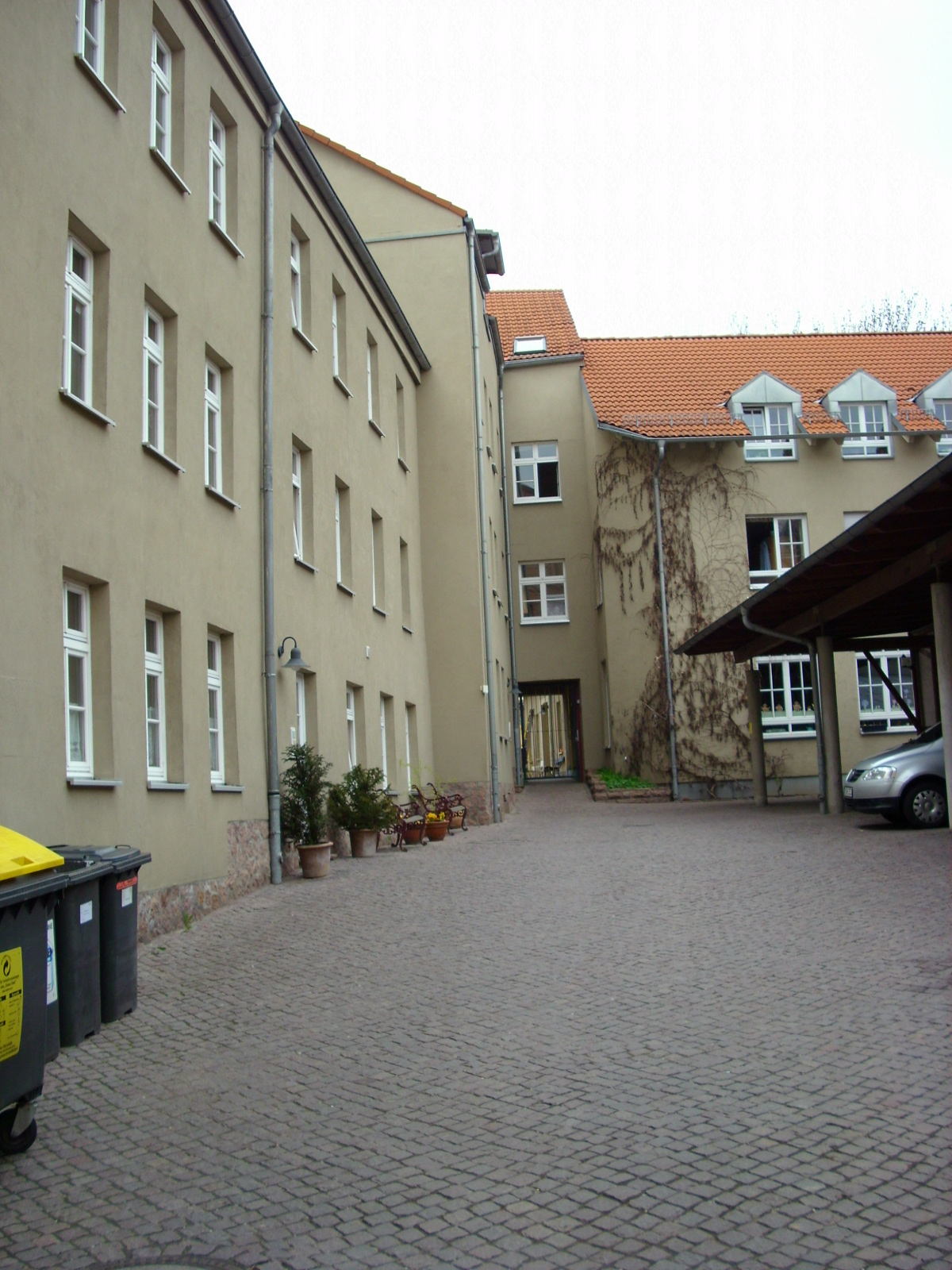 Second location of the Sprachenkonvikt Halle, used by the Stadtmission Halle (Weidenplan 3, 06108 Halle).